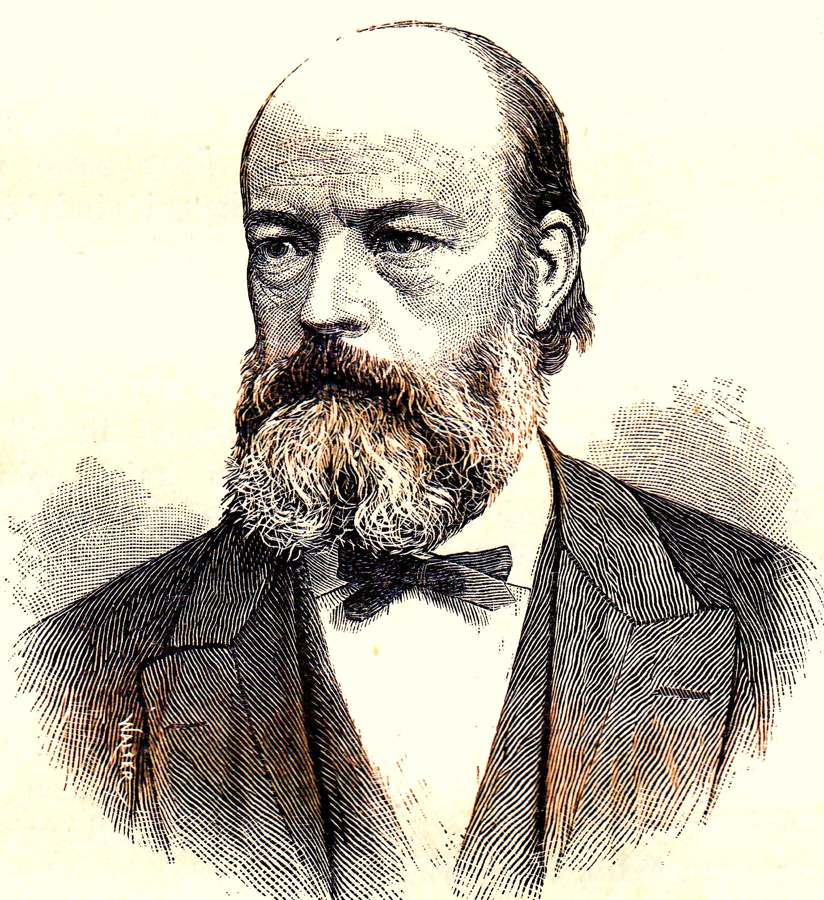 Dr. G.D.L. Huet